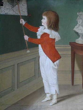 Little boy in a white dress and red blaser point with a stick at the map